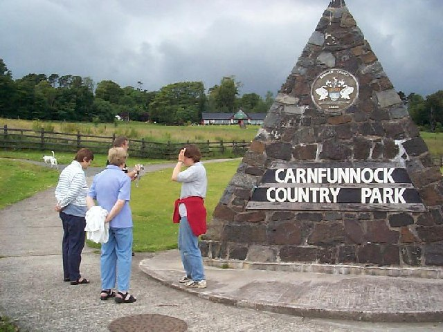 Carnfunnock Country Park. Located north of the port of Larne in Country Antrim. Carnfunnock Country Park is packed full of exciting and unusual attractions to see and do, with over 473 acres of mixed woodland, colourful gardens, ponds, walking trails, beaches and coastline, not forgetting its spectacular panoramic views of the Antrim Coast and North Channel.